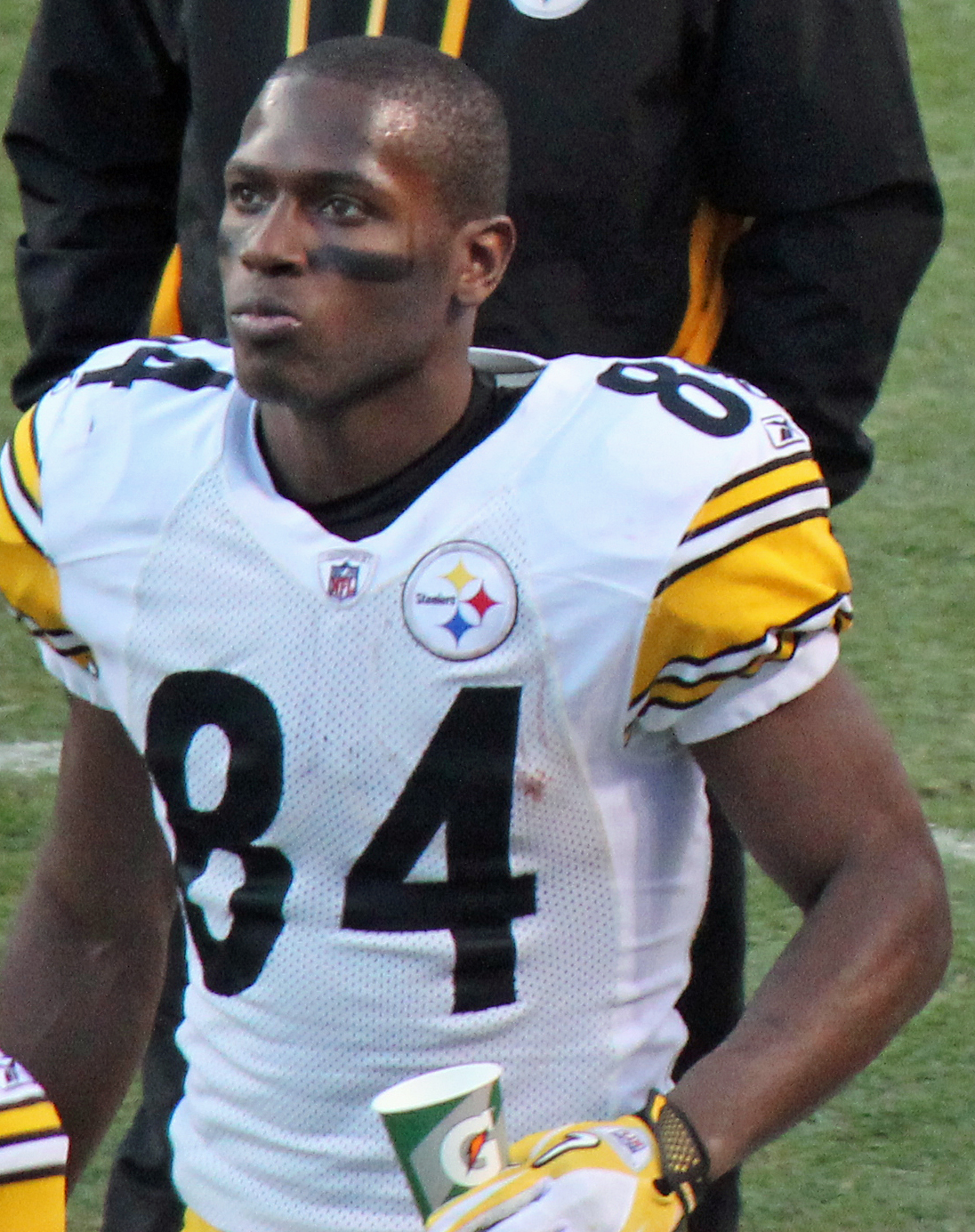 Antonio Brown (born 1988), a player on the National Football League.